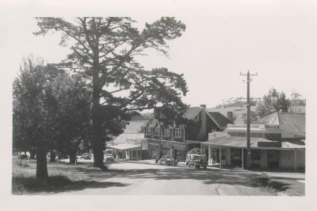 Creator: Shire of Berwick Copyright: library owns image (image on public access)